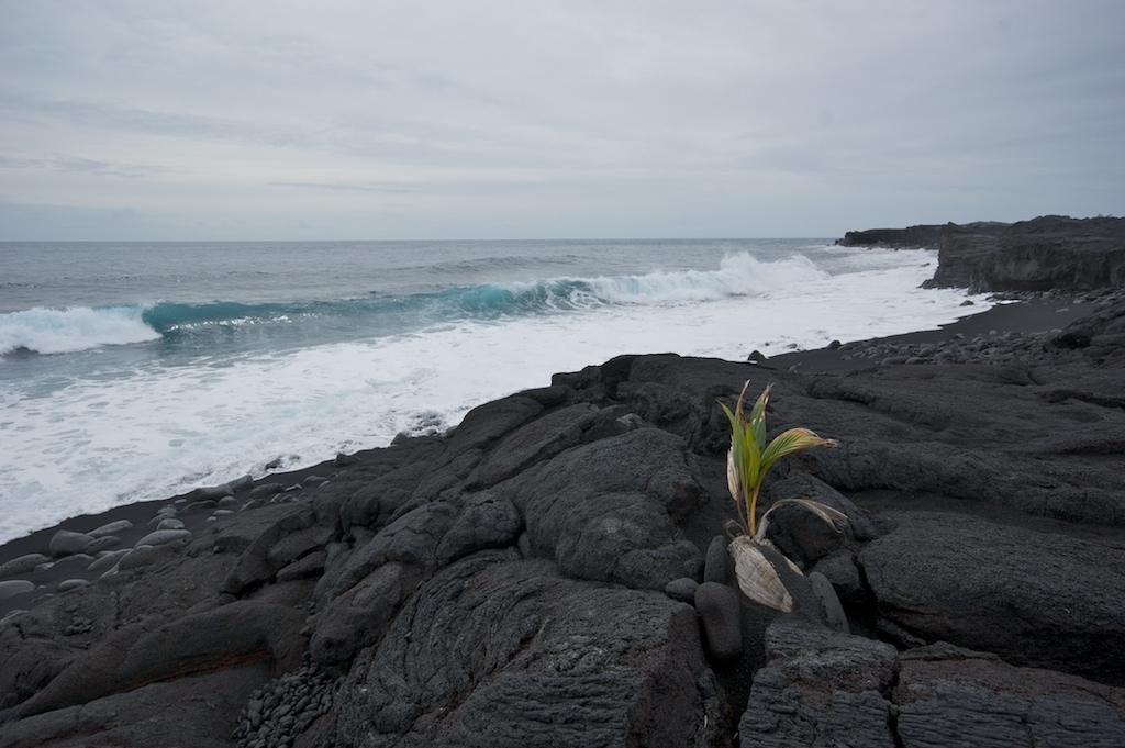 New Beach on Big Island of Hawaii, formed by volcanic eruption of 1990